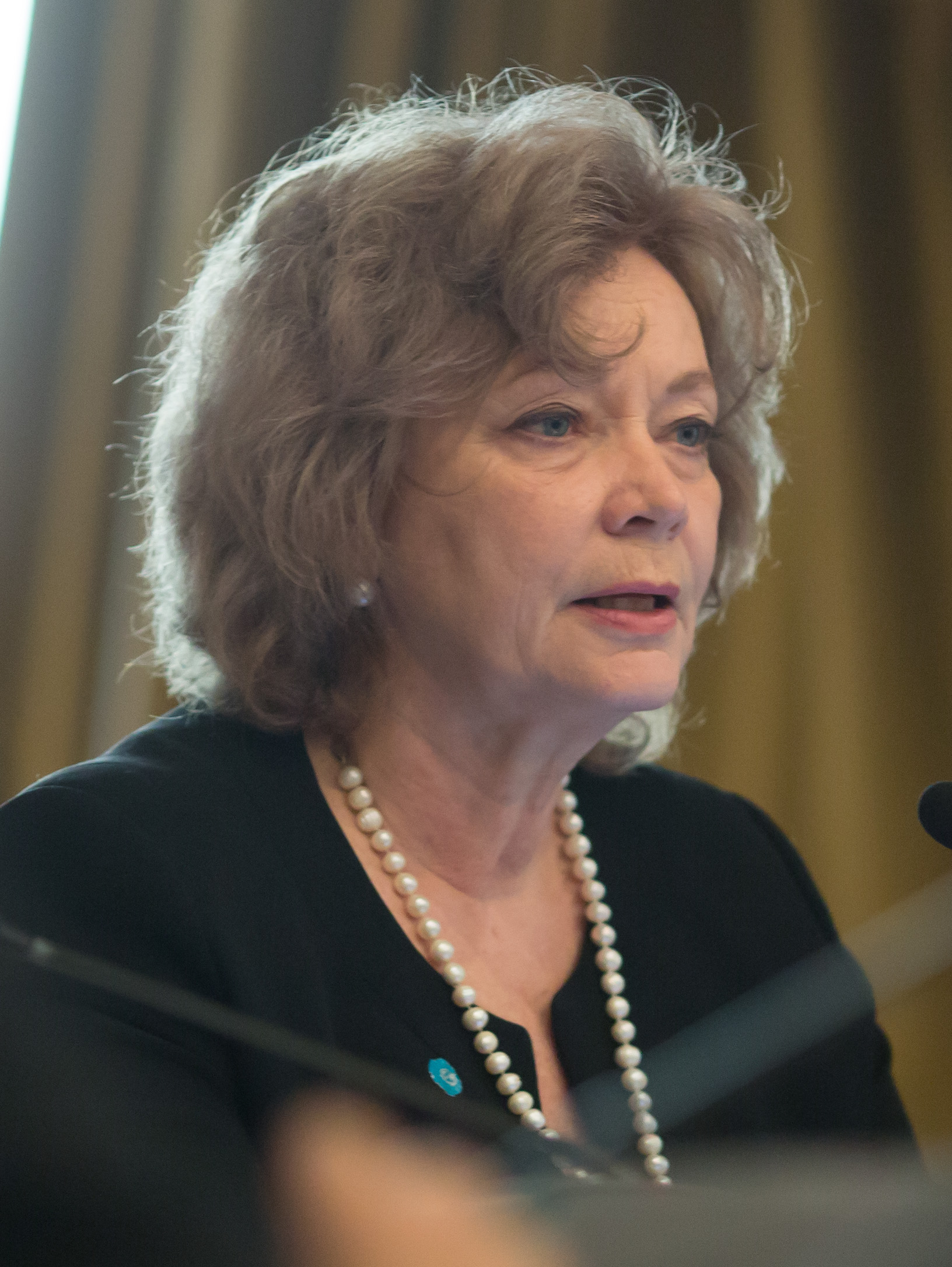 Maria Leissner (Community of Democracies)